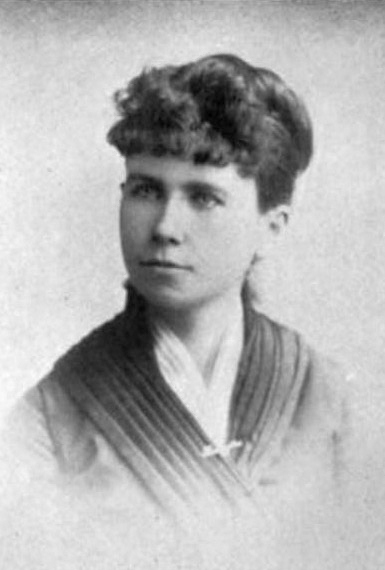 Photographic portrait of American writer Kate McPhelim Cleary (1863-1905). From The Magazine of Poetry and Literary Review. Edited by Charles Wells Moulton. Buffalo, NY, April 1893: p. 144.